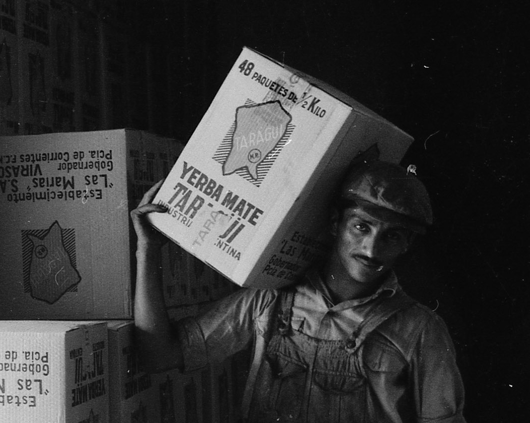 Taragüí, the Guaraní word for “Corrientes”—the name of the province in which Establecimiento Las Marías is located—is the flagship brand of the company. Leader in the Argentine as well as global markets, Taragüí offers a quality and personality that have remained unaltered through the years.